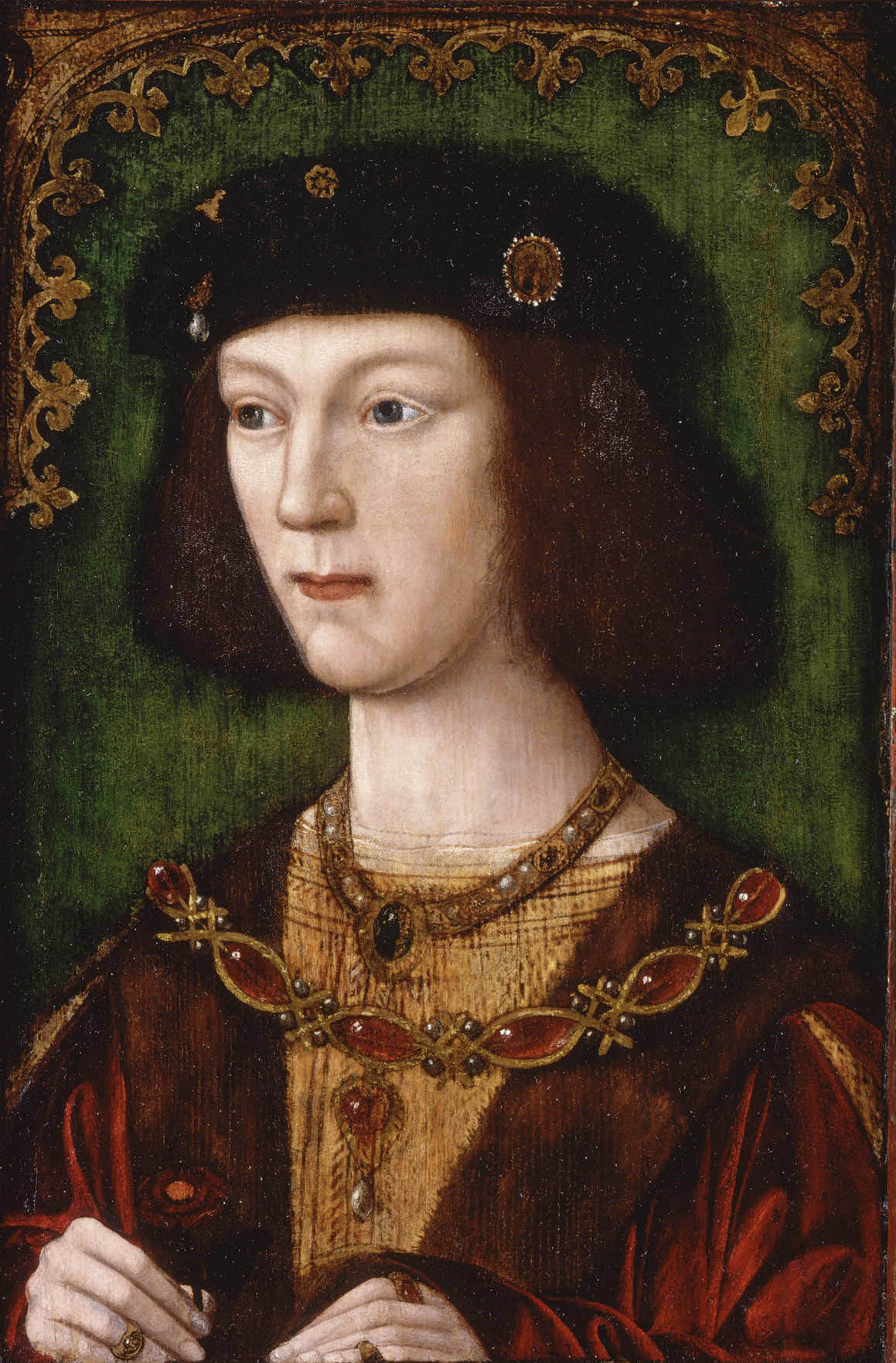 Portrait of Henry VIII of England (1491-1547), reigned 1509-1547.